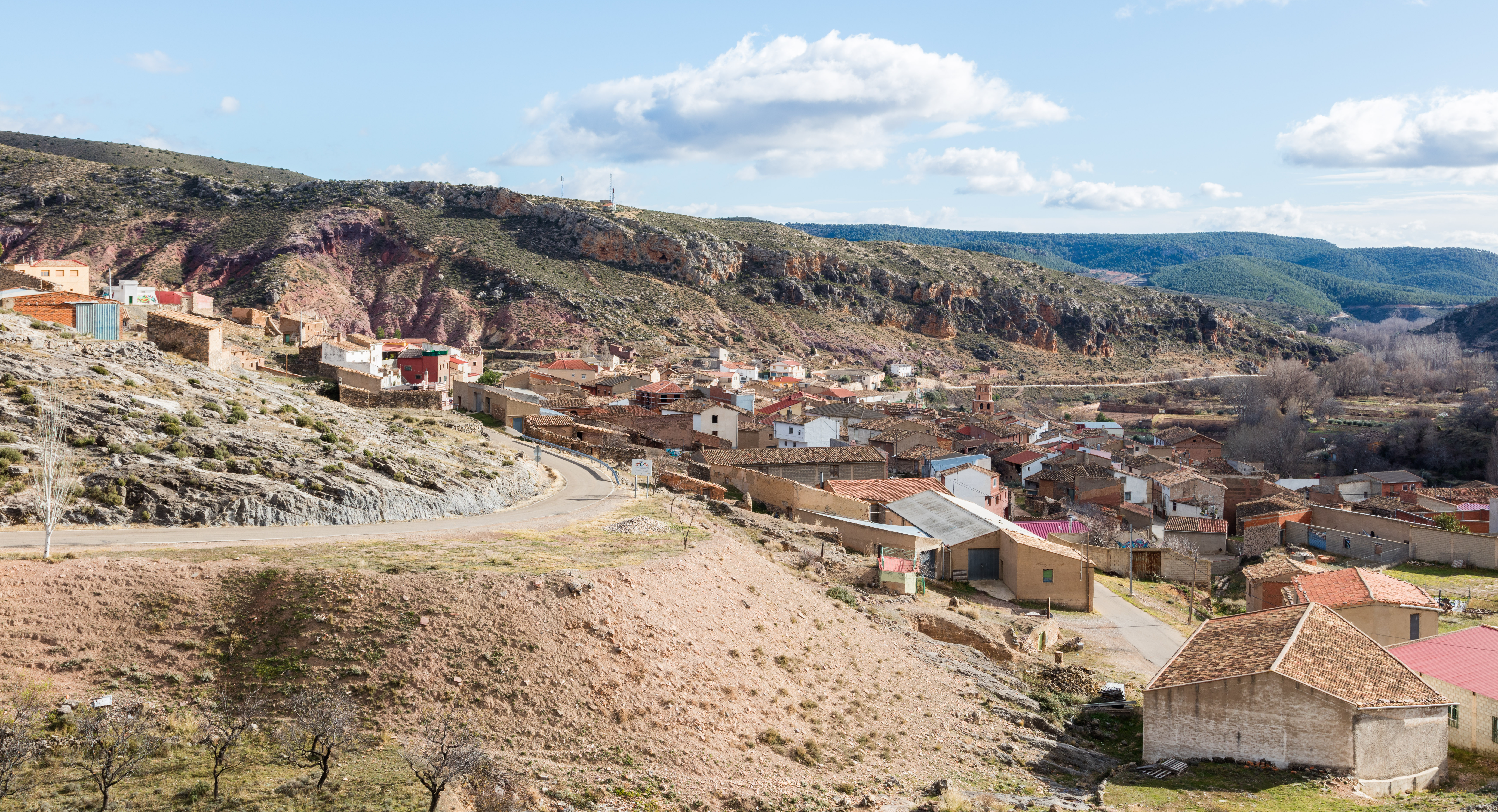 Trasobares, Zaragoza, Spain